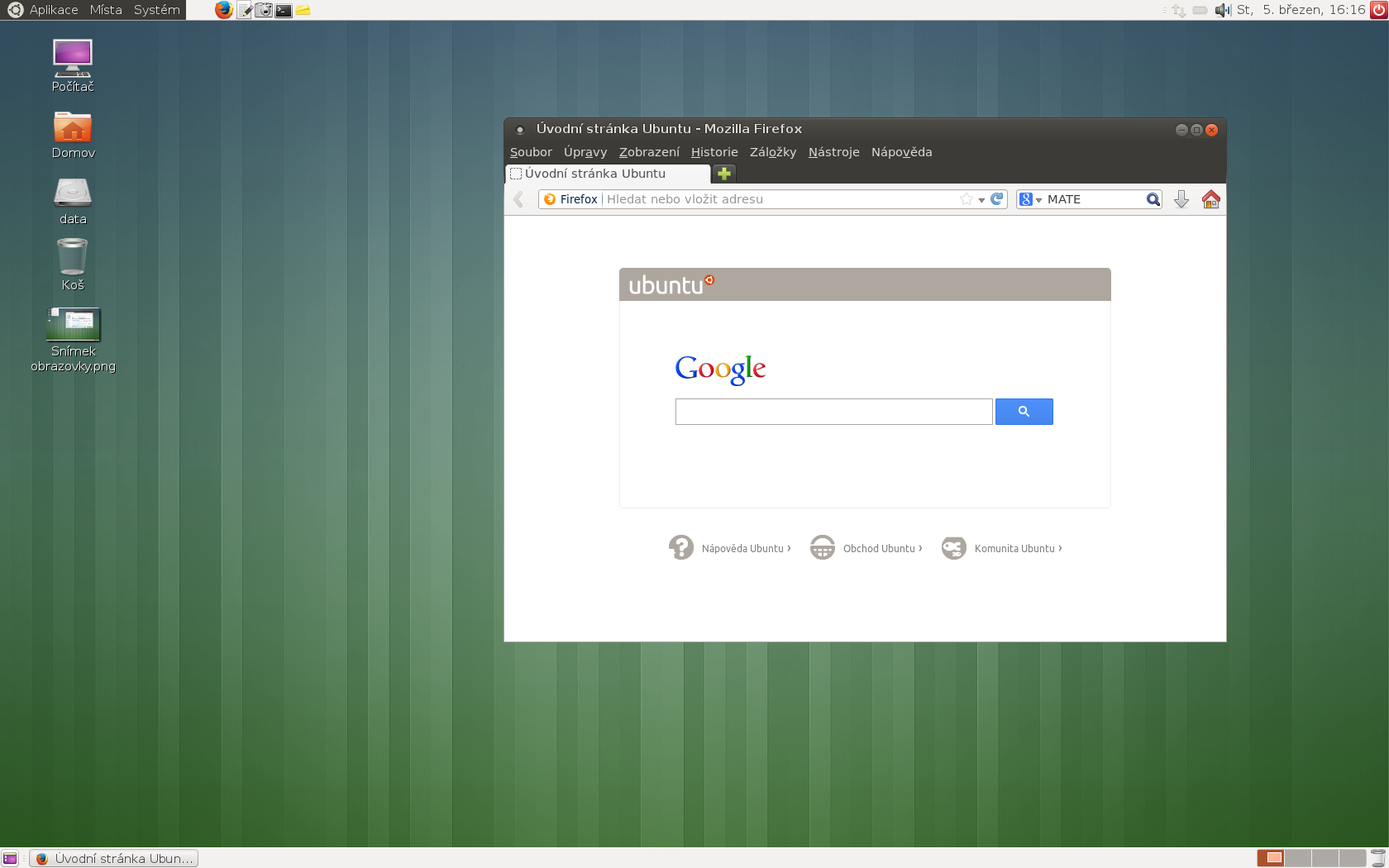 Desktop MATE version 1.8 on Ubuntu 13.10